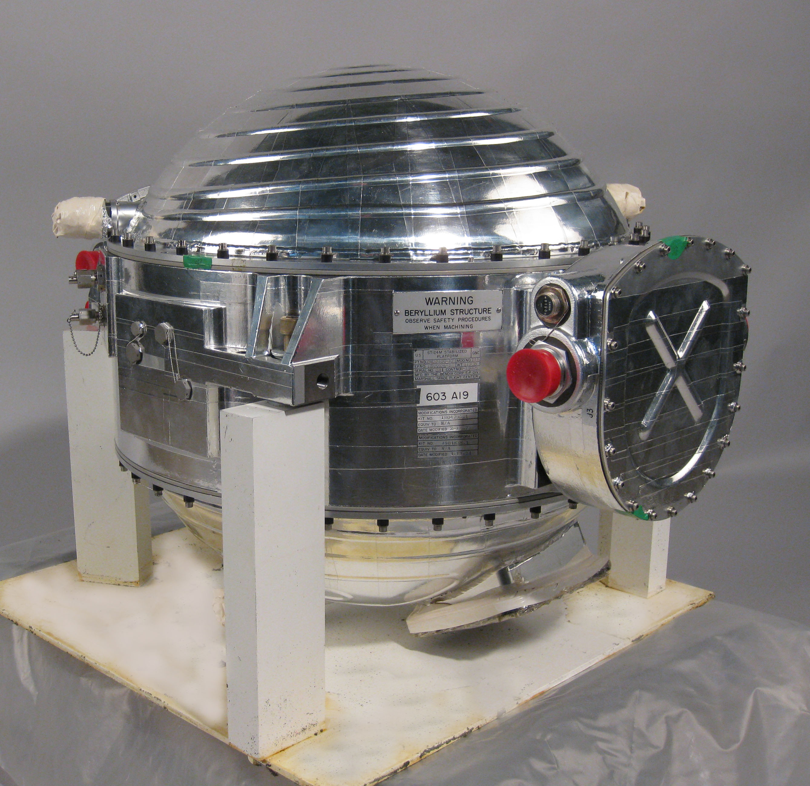 ST-124 in the collection of the Smithsonian Institution National Air and Space Museum in Washington, DC. Donated to NASM by Honeywell International, Inc.